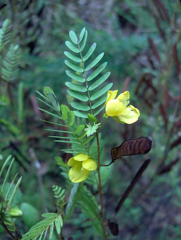 Partridge Pea